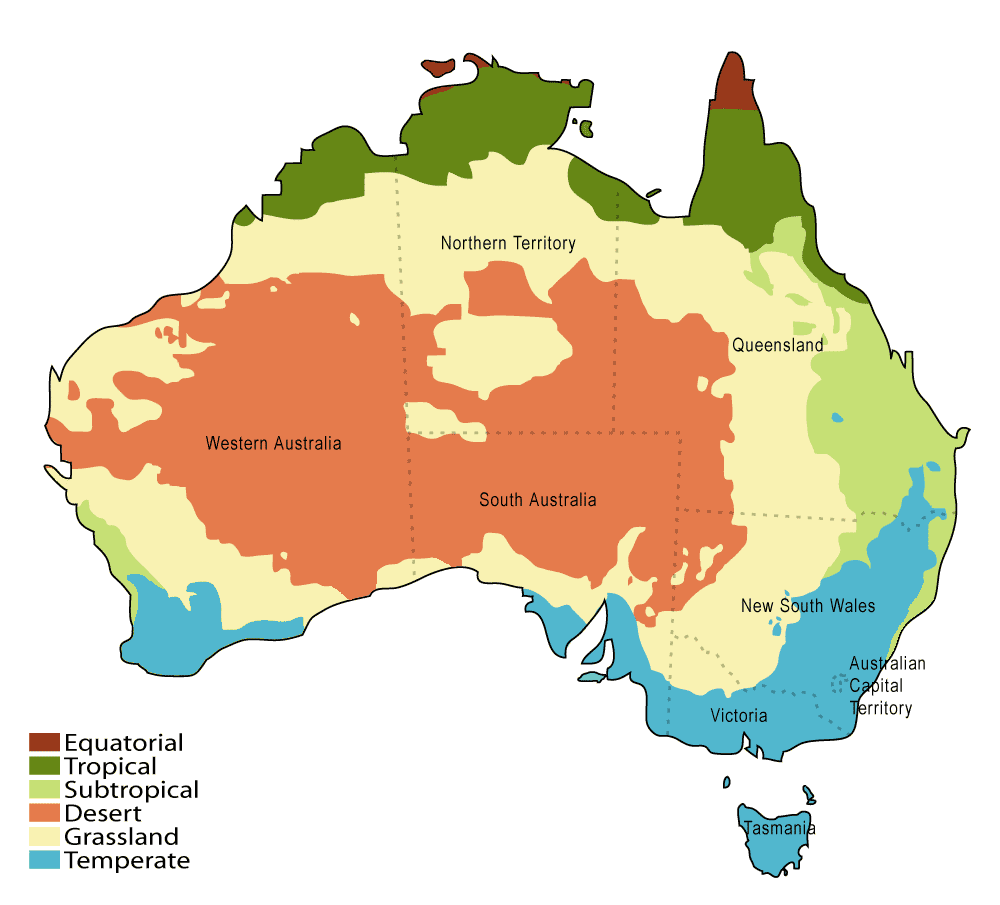 The Australian Bureau of Meteorology climate classification, a modification of Köppen's classification. Data from .au.